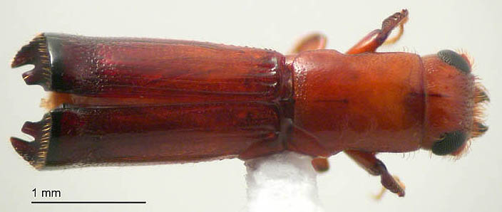 Dinoplatypus chevrolati, an ambrosia beetle from the subfamily Platypodinae.